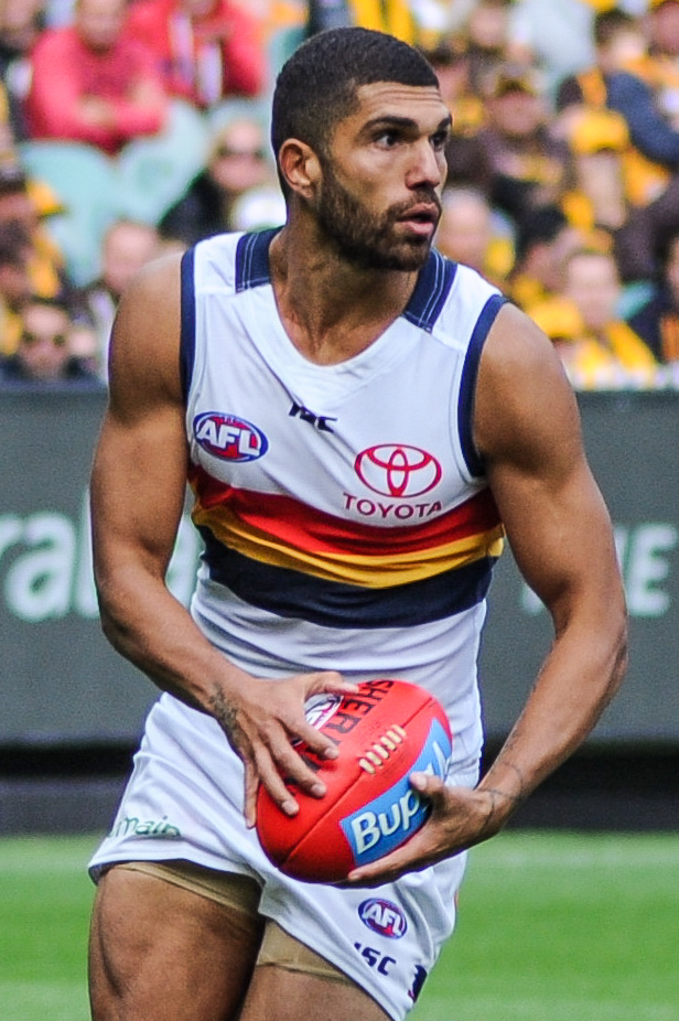 Curtly Hampton during the AFL round two match between Hawthorn and Adelaide on 1 April 2017 at the Melbourne Cricket Ground in Melbourne, Victoria.